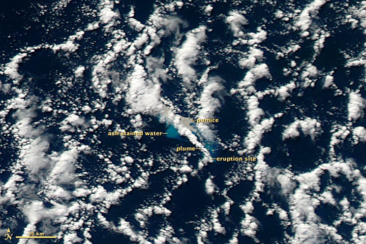 Havre Seamount Eruption 19 July 2012 with labels. (MODIS satellite image).